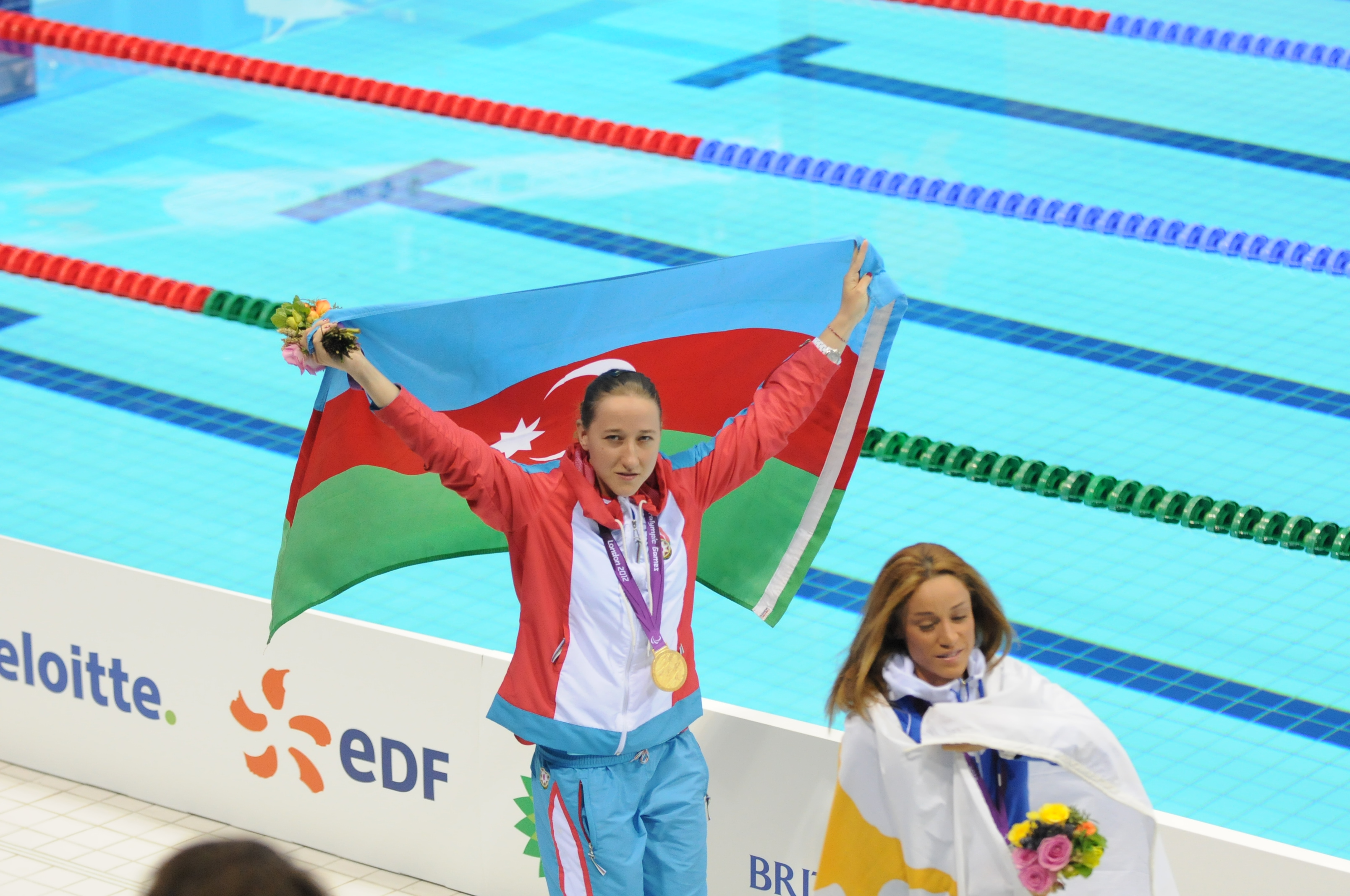 Natali Pronina at the 2012 Summer Paralympics